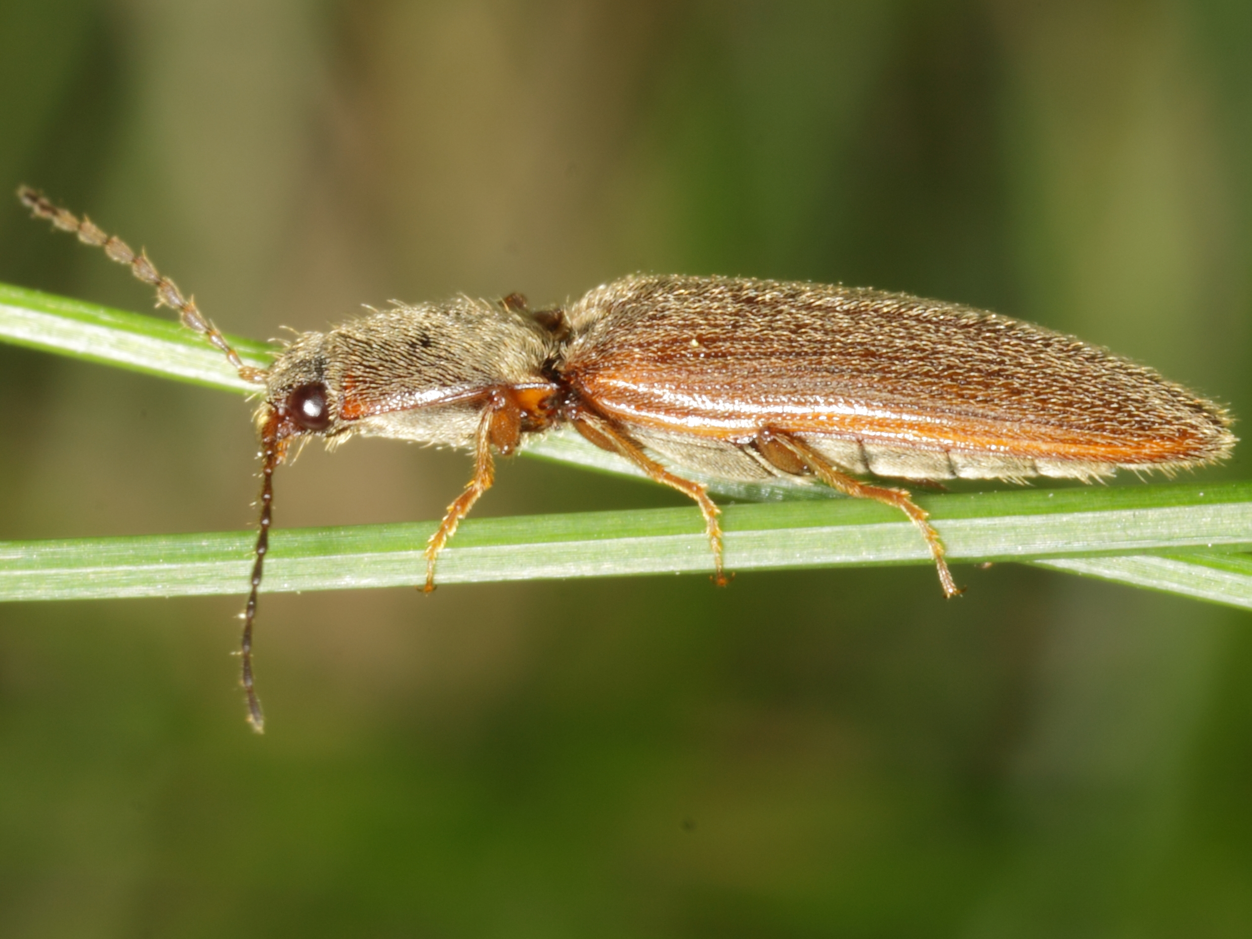 L: 8-10.5 mm The larvae of this genus develop in plant roots. Phylum: Arthropoda Subphylum: Hexapoda Class: Insecta (insects, Insekten) Subclass: Pterygota Order: Coleoptera (beetles, Käfer) Suborder: Polyphaga Infraorder: Elateroifomia Superfamily: Elateroidea Family: Elateridae (click beetle, Schnellkäfer) Subfamily: Dendrometrinae GISTEL, 1856 [Syn.: Athoinae (Laubschnellkäfer)] Tribus: Athoini CANDÈZE, 1859 Genus: Athous ESCHSCHOLTZ, 1829 Athous subfuscus MÜLLER, 1767 (bräunlicher Laubschnellkäfer) more info: Germany, Brandenburg, vic. Königs-Wusterhausen: Dubrow, 05.05.2013 IMG_3446